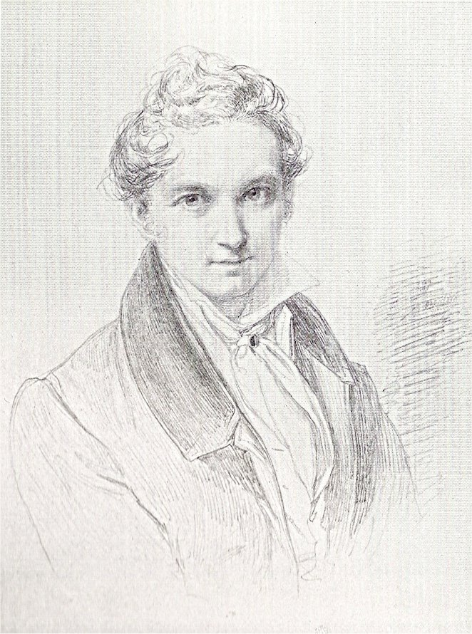 Scetch